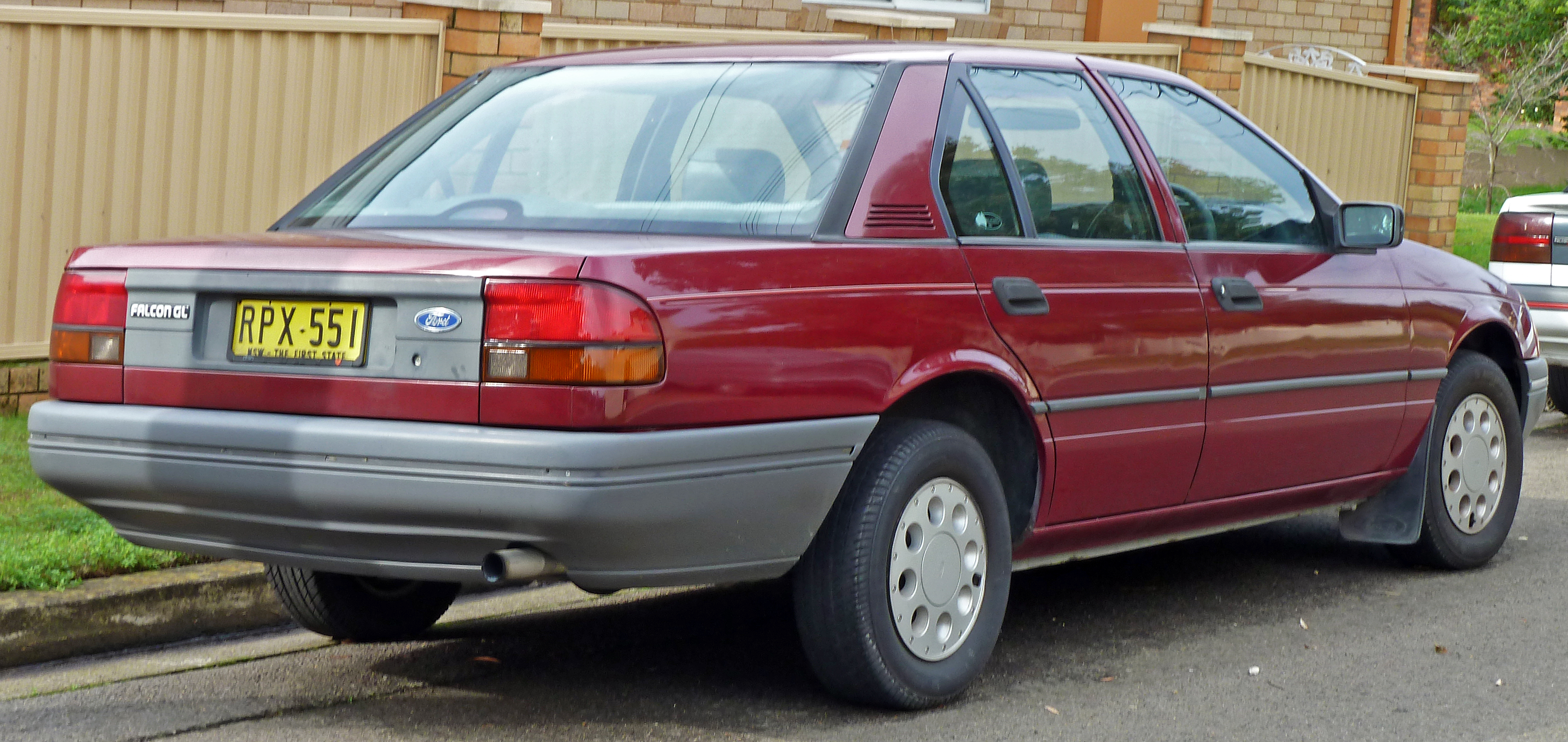 1989 Ford Falcon (EA II) GL sedan. Photographed in Blakehurst, New South Wales, Australia.